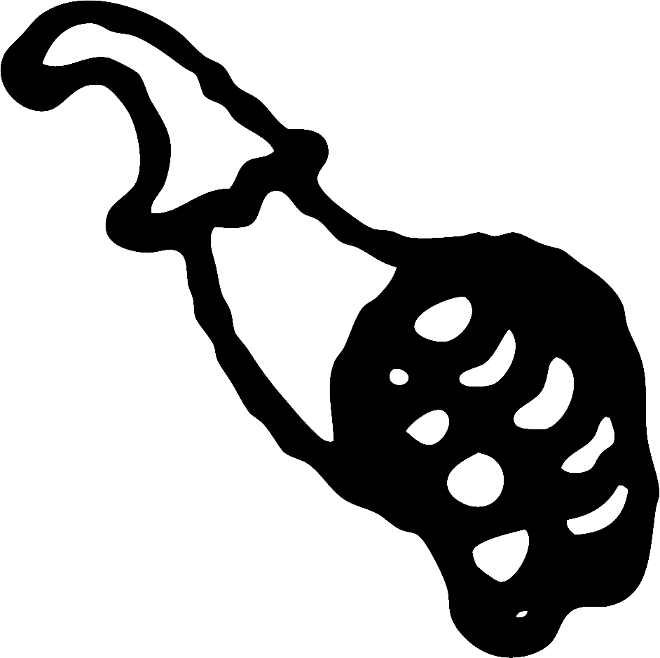 Mint mark of Monnaie de Paris in Pessac.